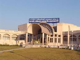 jhansi